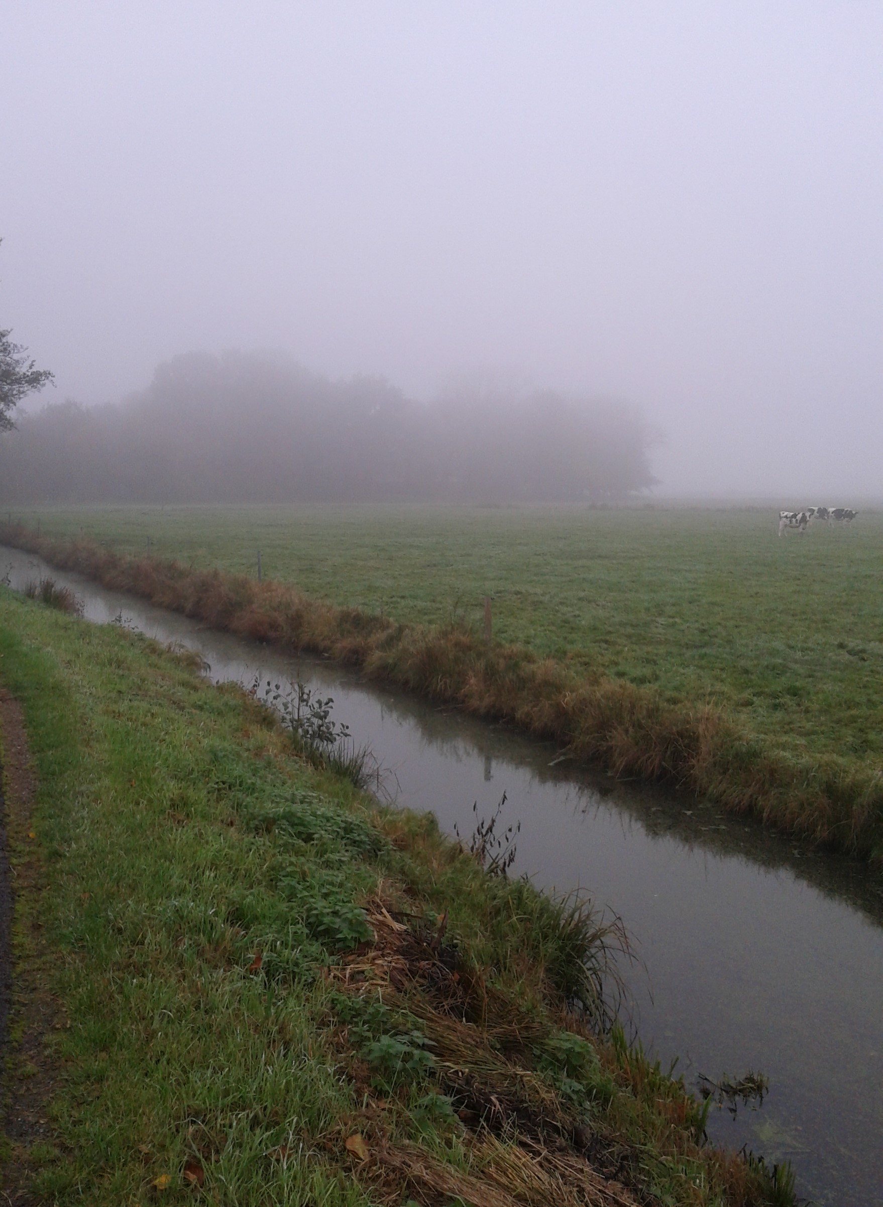 Ditch in Niederblockland (Breme, Germany) on a foggy day with Hof Kapelle in the background